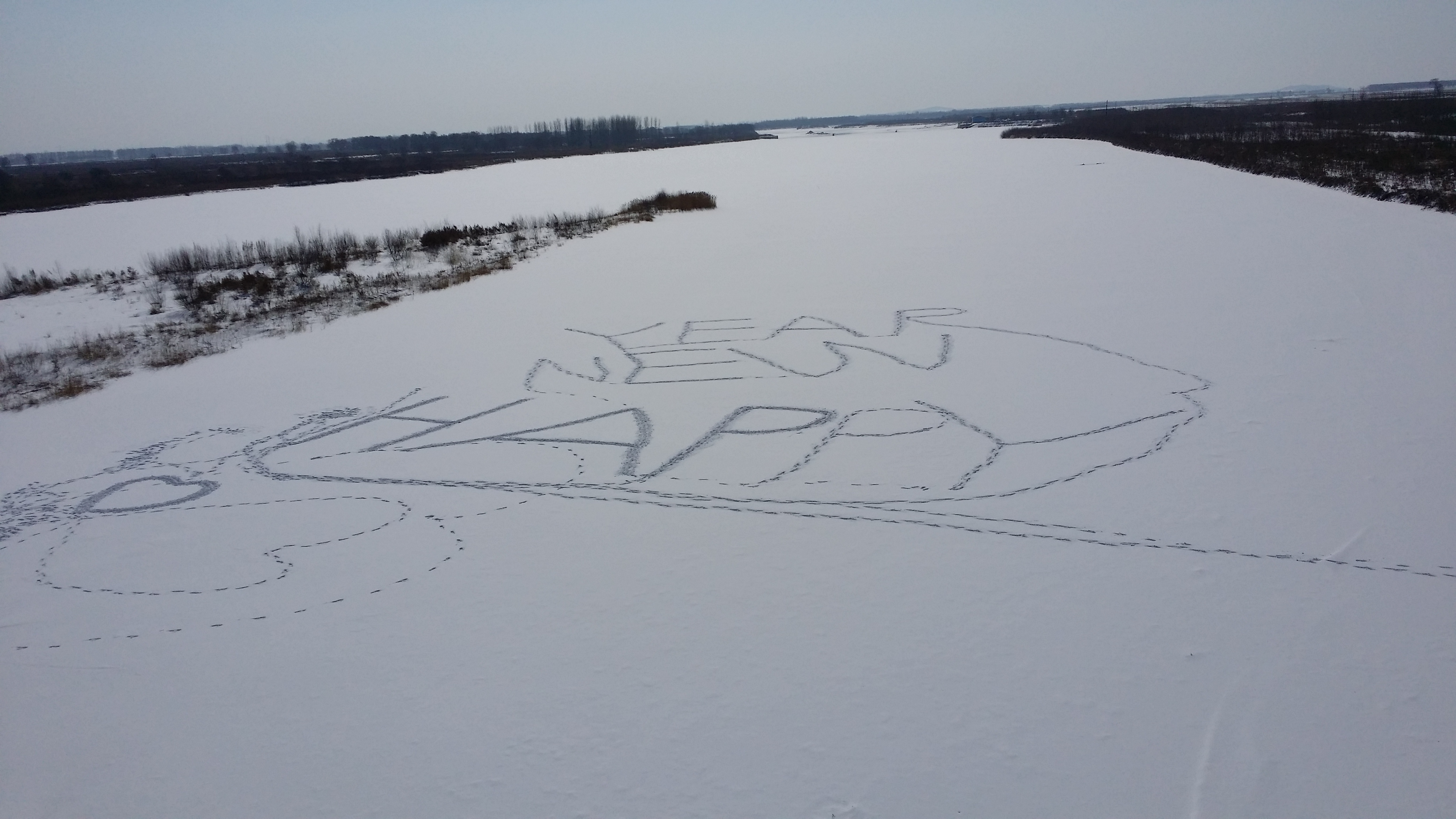 a journey to the Liaohe River Bridge in Tieling County and a blessing to everyone in the world